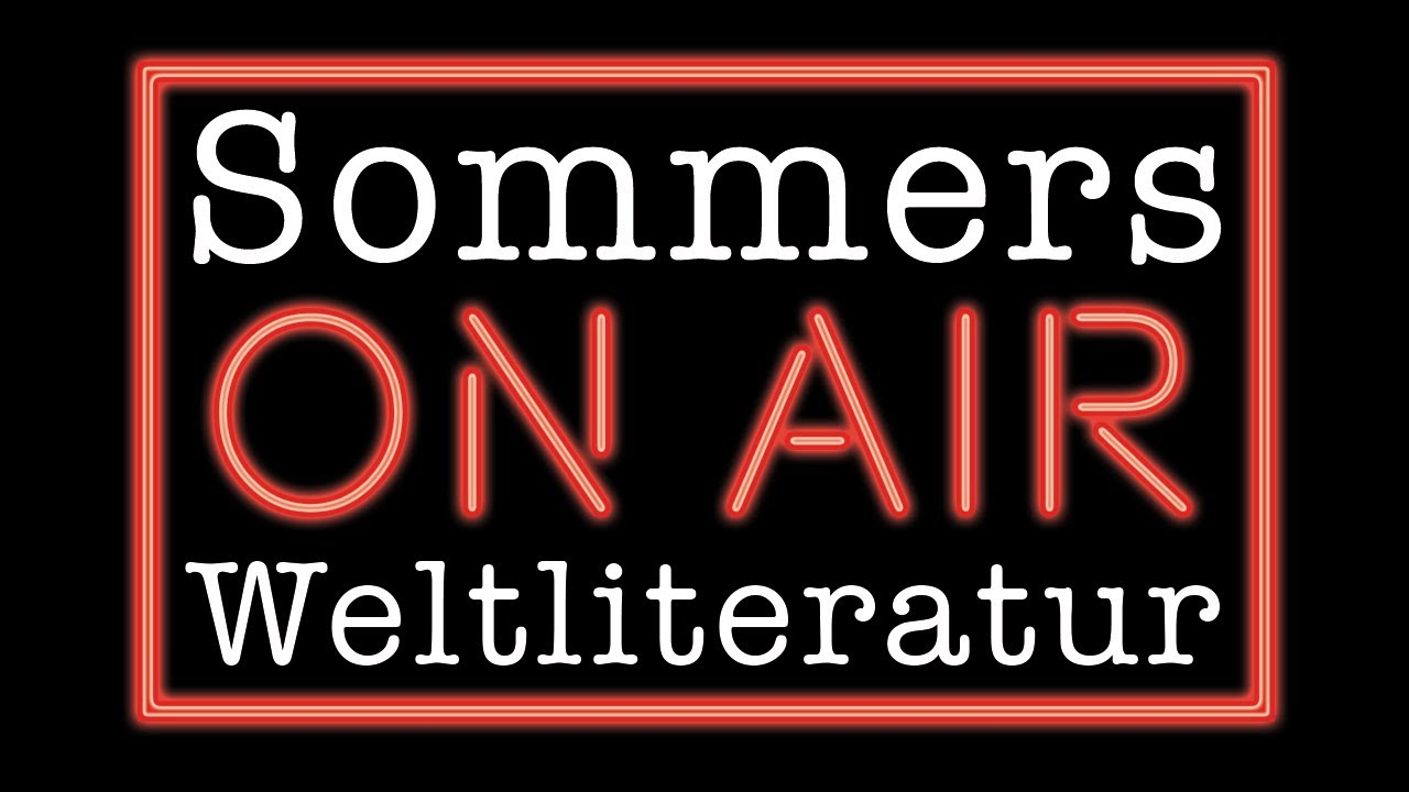 Logo of the live streaming format SOMMERS WELTLITERATUR ON AIR relating to YouTube channel SOMMERS WELTLITERATUR TO GO by artist Michael Sommer.